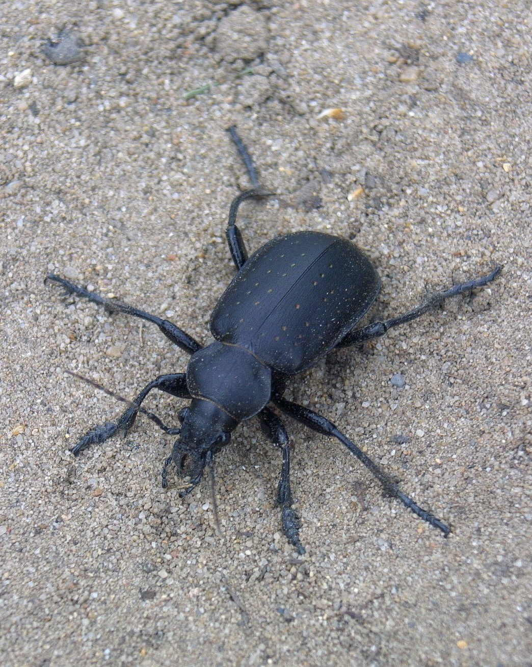 This picture was taken on the Szentendrei Island (Pocsmegyer, Hungary)